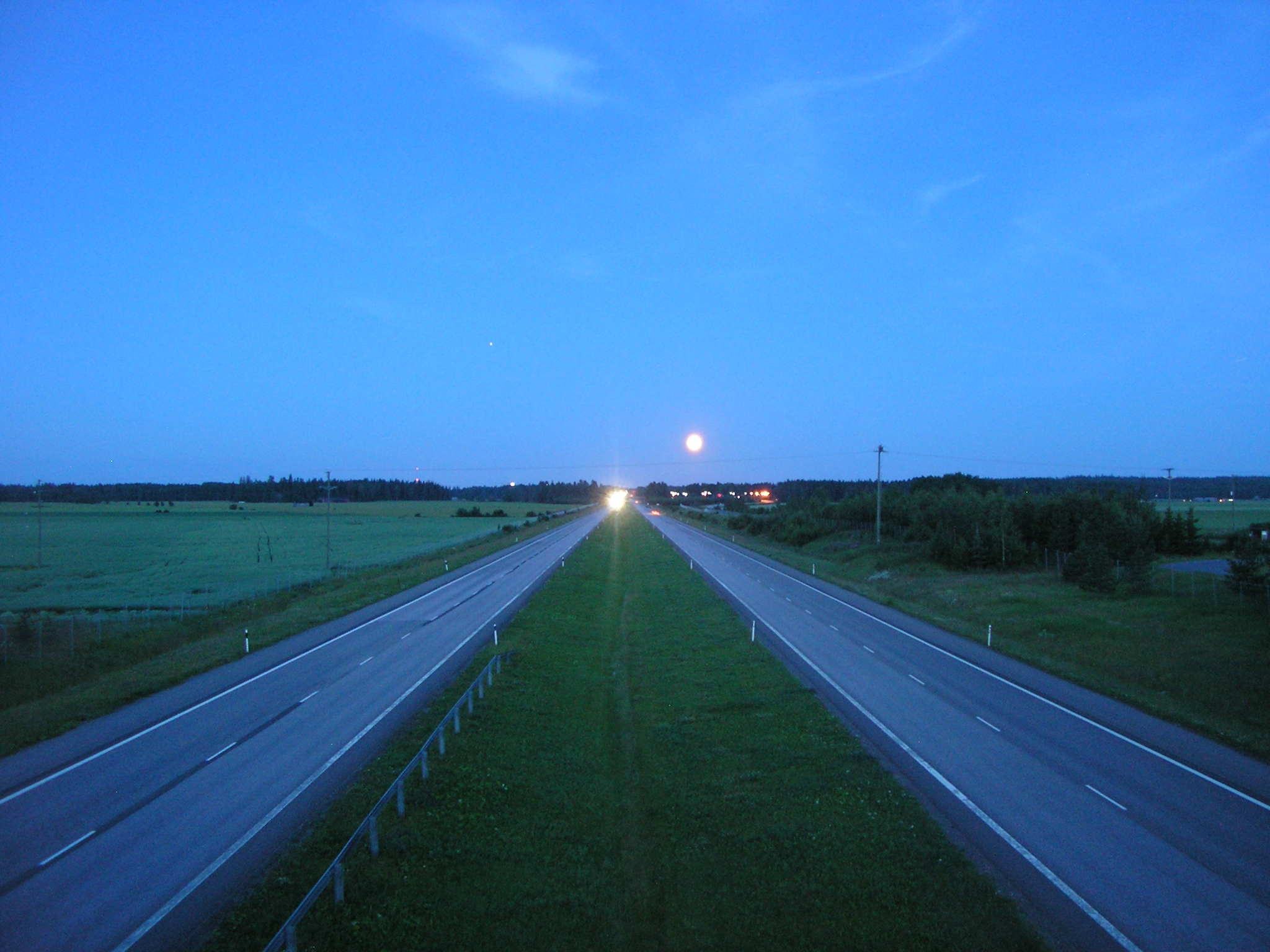 motorway 3 / E12 [07-2008]